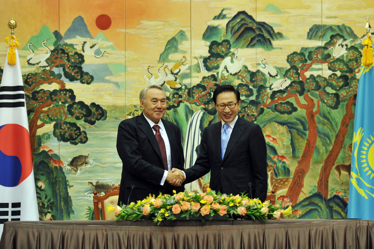 On April 22, 2010, Presidents Lee Myung-bak and Nursultan A. Nazarbayev of the Republic of Kazakhstan held a summit at Cheong Wa Dae